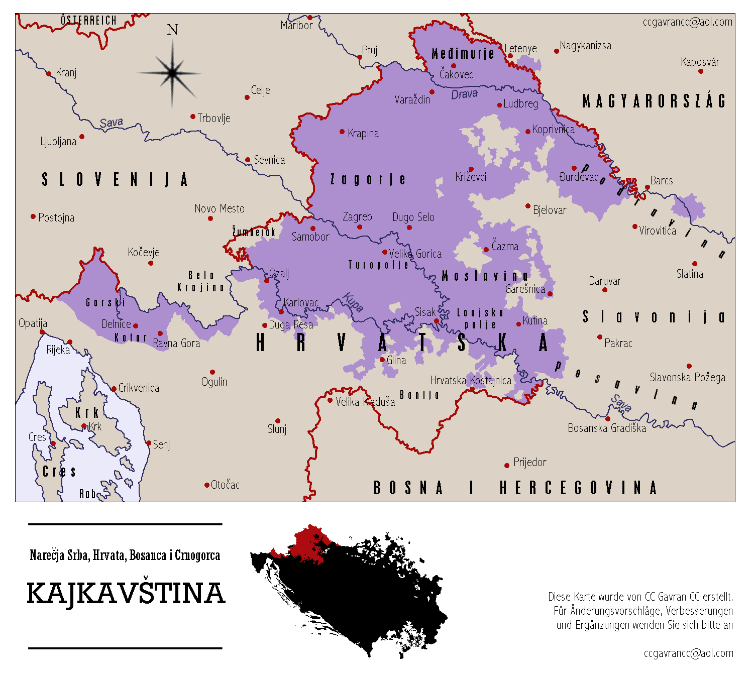 Location map of the Kajkavian dialect of Croatian